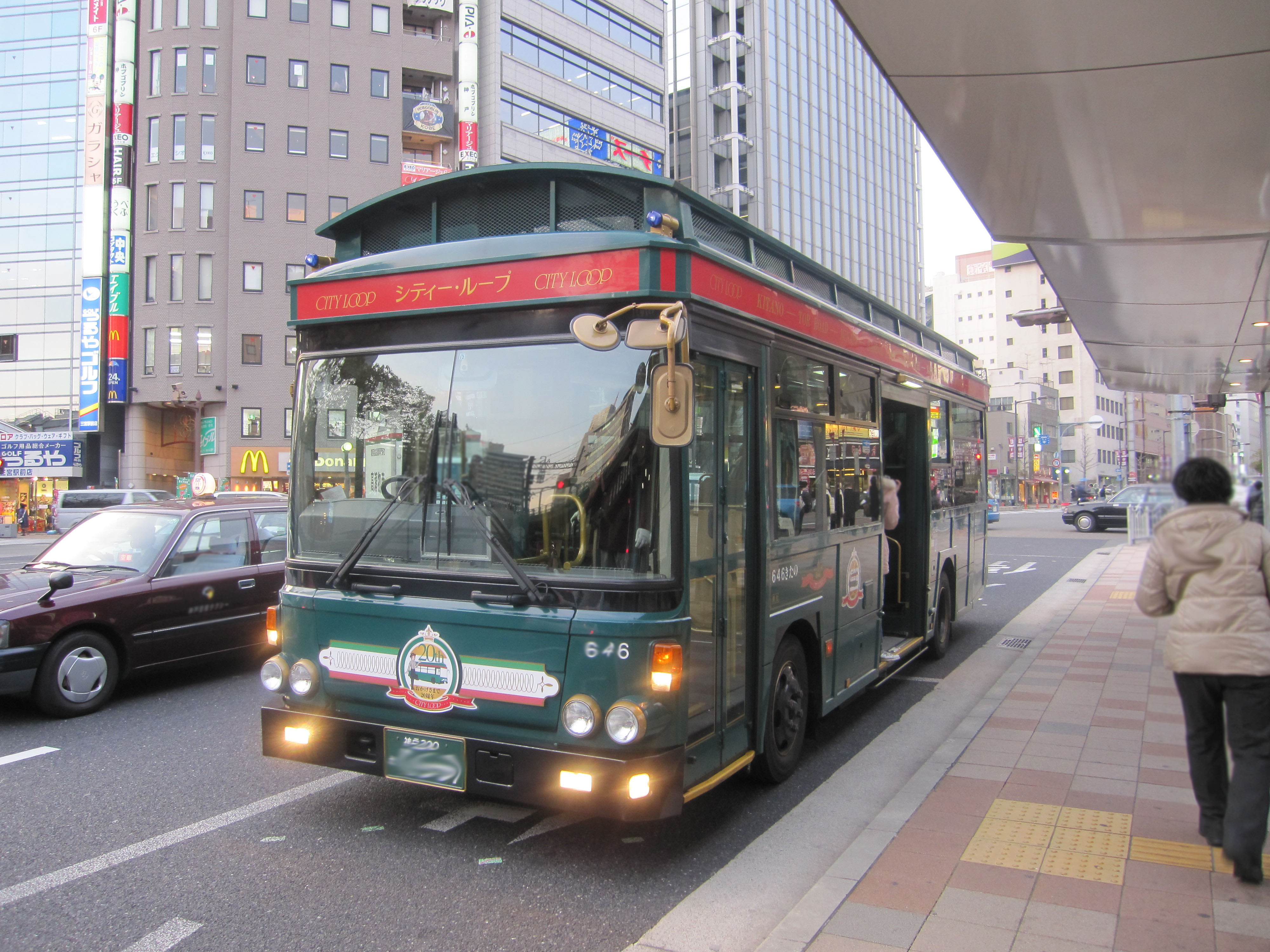 Kobe City Loop Bus